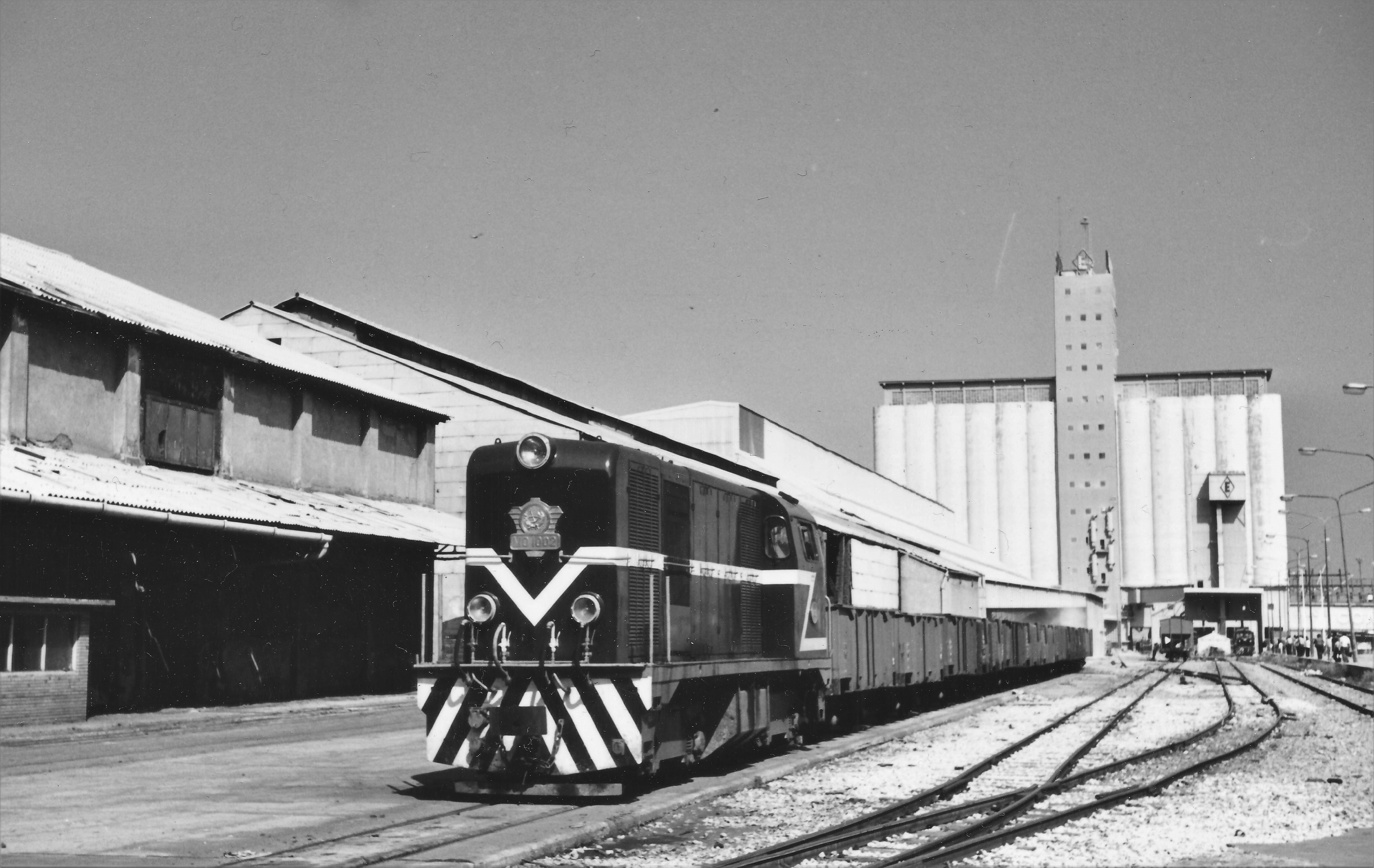 The FEVE MO 1002 diesel locomotive, operated by the Compañía General de los Ferrocarriles Catalanes (CGFC), at the Barcelona-El Port station, shunting potash wagons.